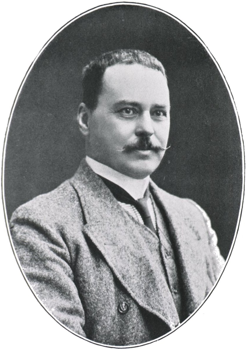 Ronald Ross, winner of Nobel Prize in Medicine